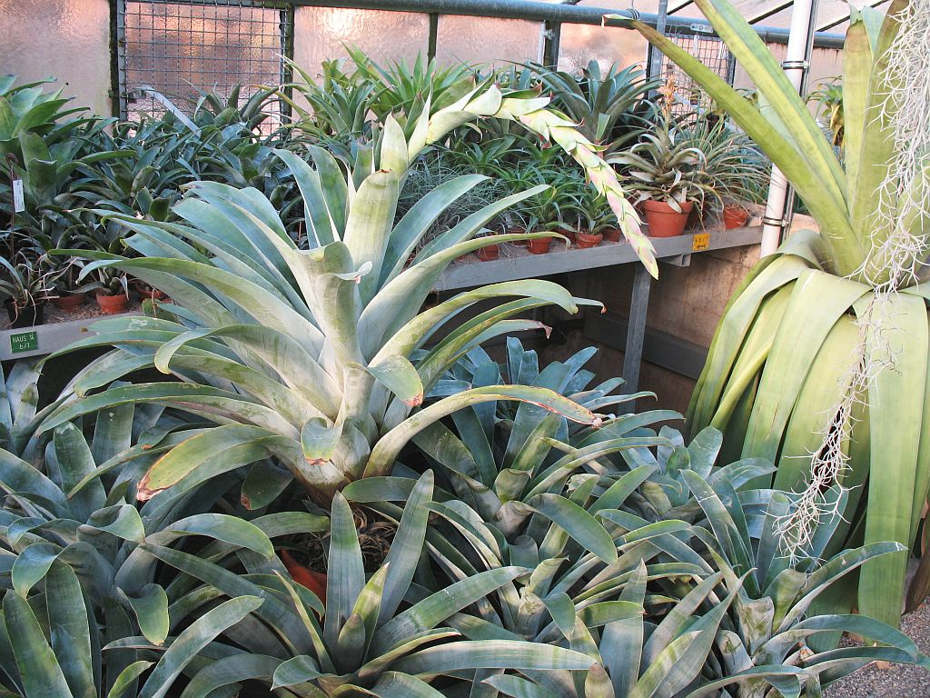 Tillandsia lymanii in cultivation at the Botanical Garden of Heidelberg, Germany.